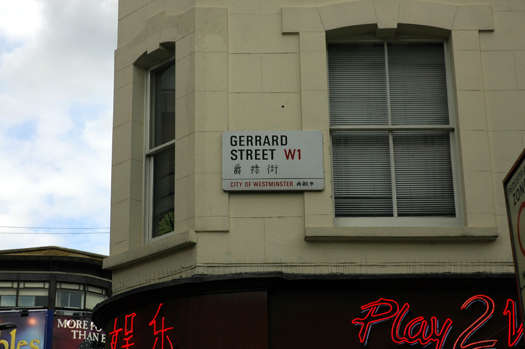 Street sign of Gerrard Street in the London Chinatown London's Chinatown is located by Leicester Square. The street signs are bilingual (English and Chinese) because of the Chinese community. Taken by SElephant in August 2004.